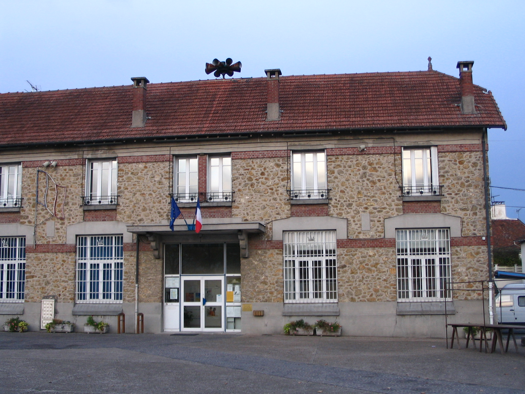 The town hall of Esbly, Seine-et-Marne, France.